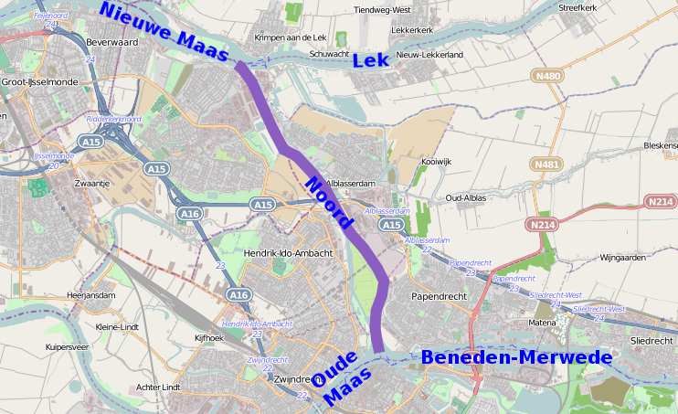 Noord, Netherlands location map